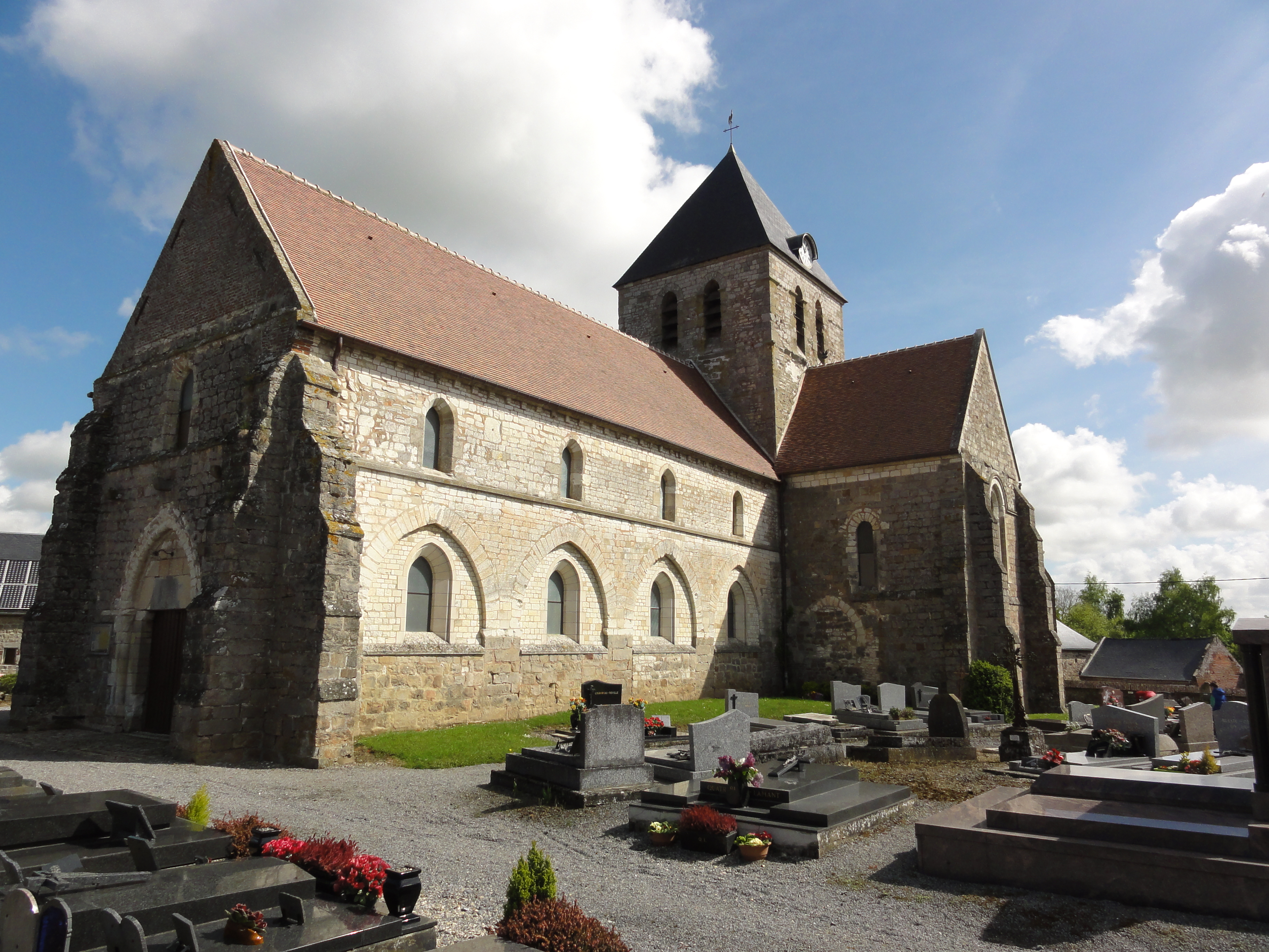 Barenton-sur-Serre (Aisne) église